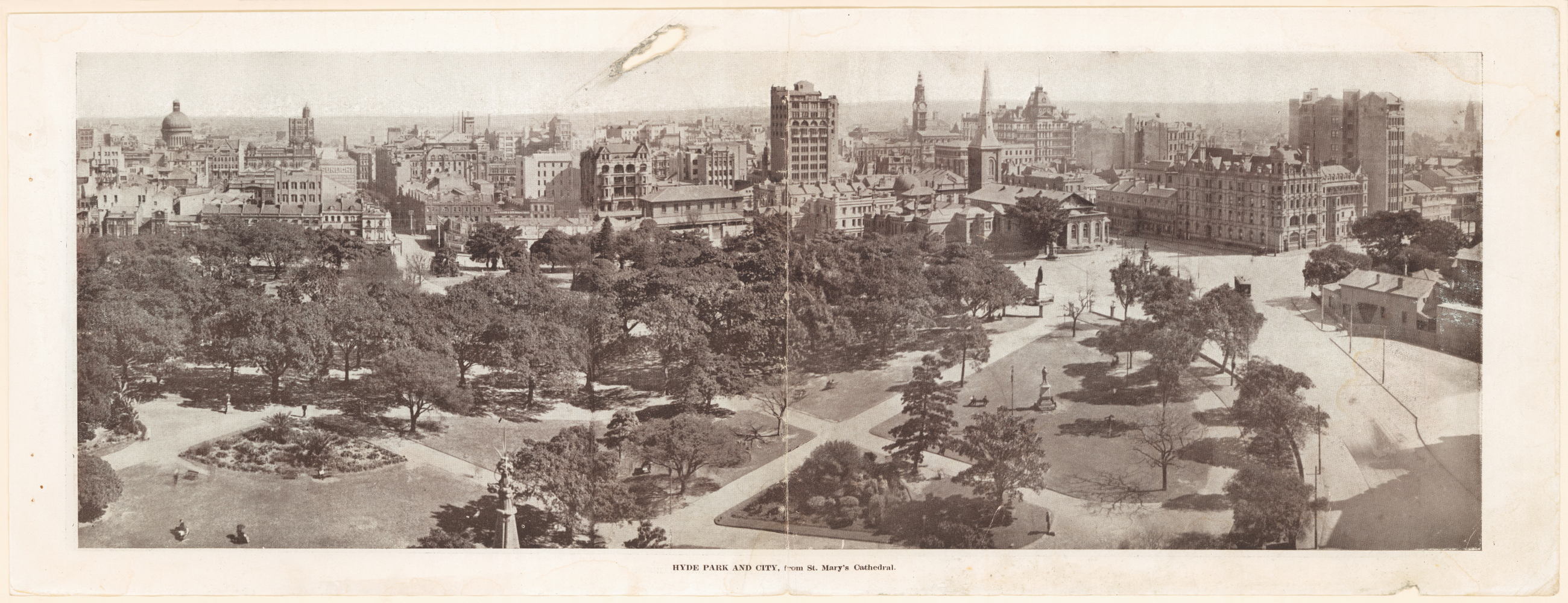 Title: Hyde Park and City, from St Mary's Cathedral Dated: c.1915 Digital ID: NRS20499_a050_000008 Series: NRS 20499 Most up-to-date Sydney panoramic views Rights: No known copyright restrictions We'd love to hear from you if you use our photos/documents. Many other photos in our collection are available to view and browse on our website using Photo Investigator.